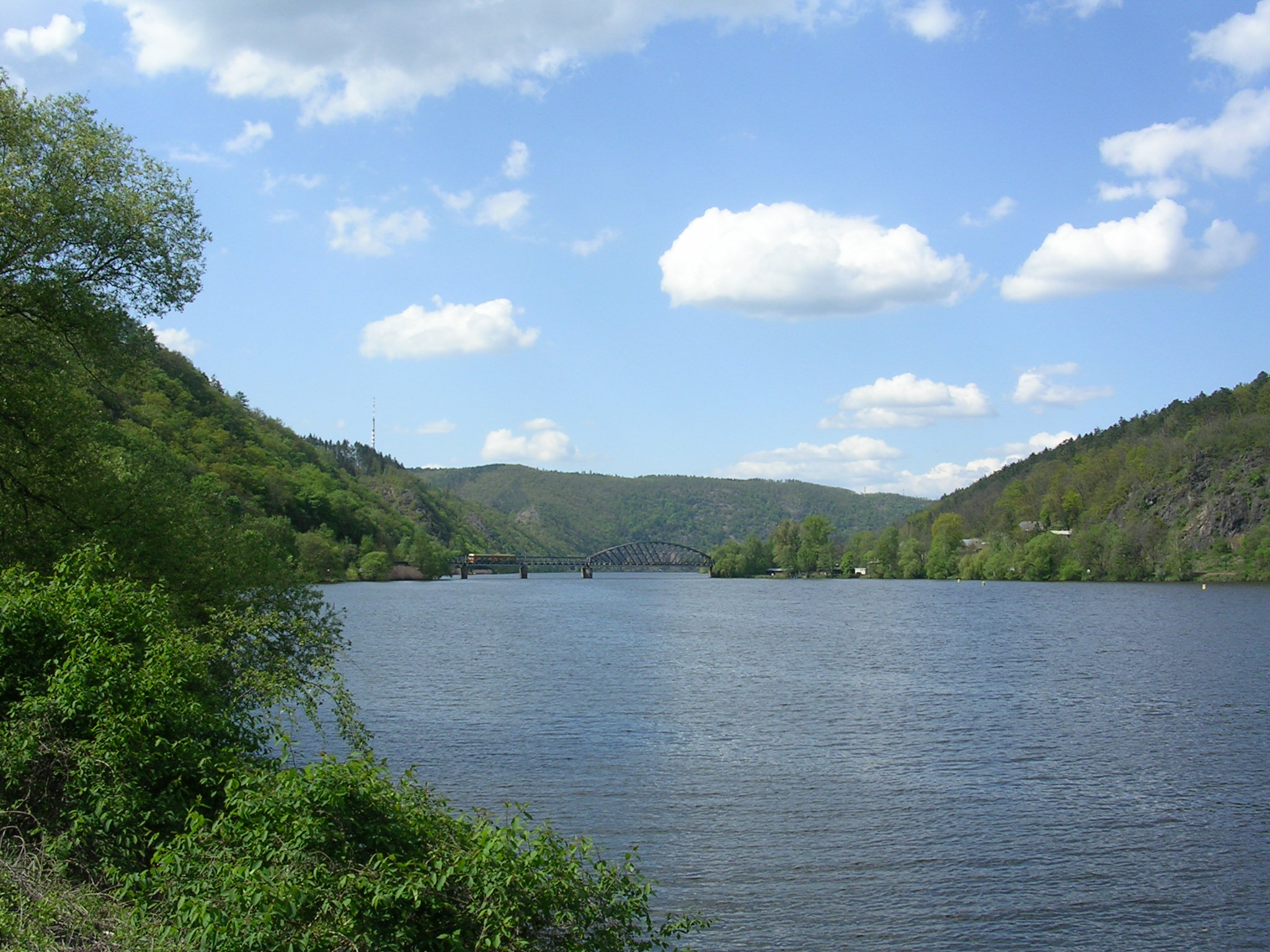 Vrané nad Vltavou, the Czech Republic.